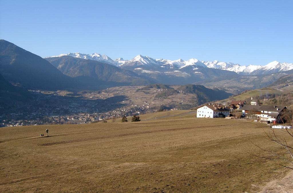 The Eisacktal viewed from Meluno (Brixen)